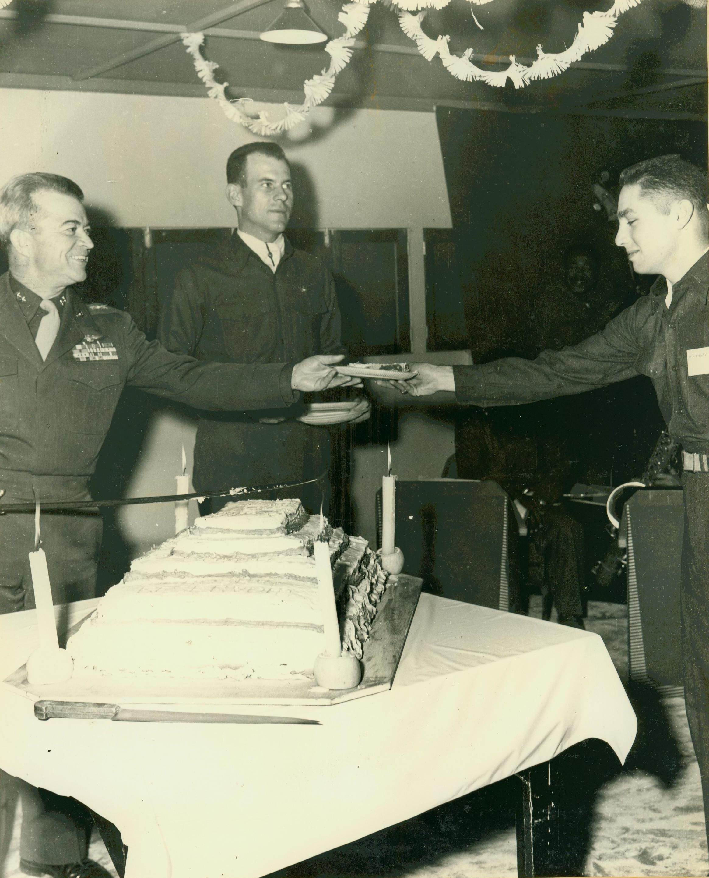 "Major General Vernon E. Megee presents first piece of the birthday cake to Second Lieutenant John H. Allison, Jr. at cake cutting ceremonies held at the Officers Mess of the 1st Marine Aircraft Wing. Captain Richard H. Fairchild in background. Korea." From the Marion Fischer Collection (COLL/858) at the Marine Corps Archives and Special Collections OFFICIAL USMC PHOTOGRAPH